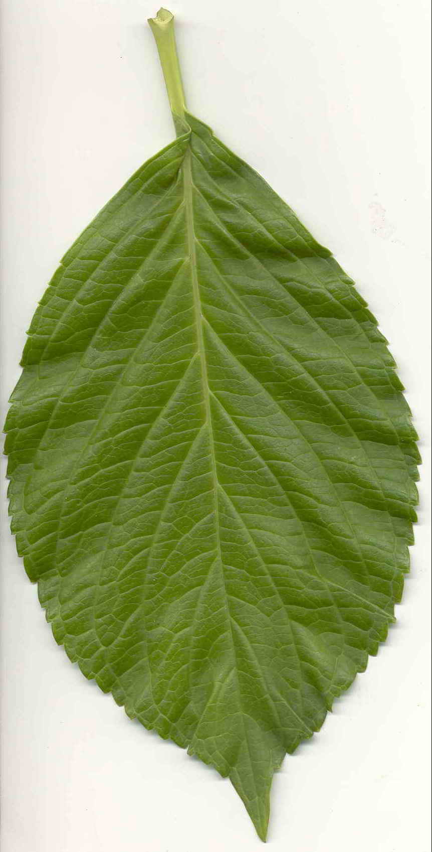 folla, hoja, leaf(Galicia - Spain)